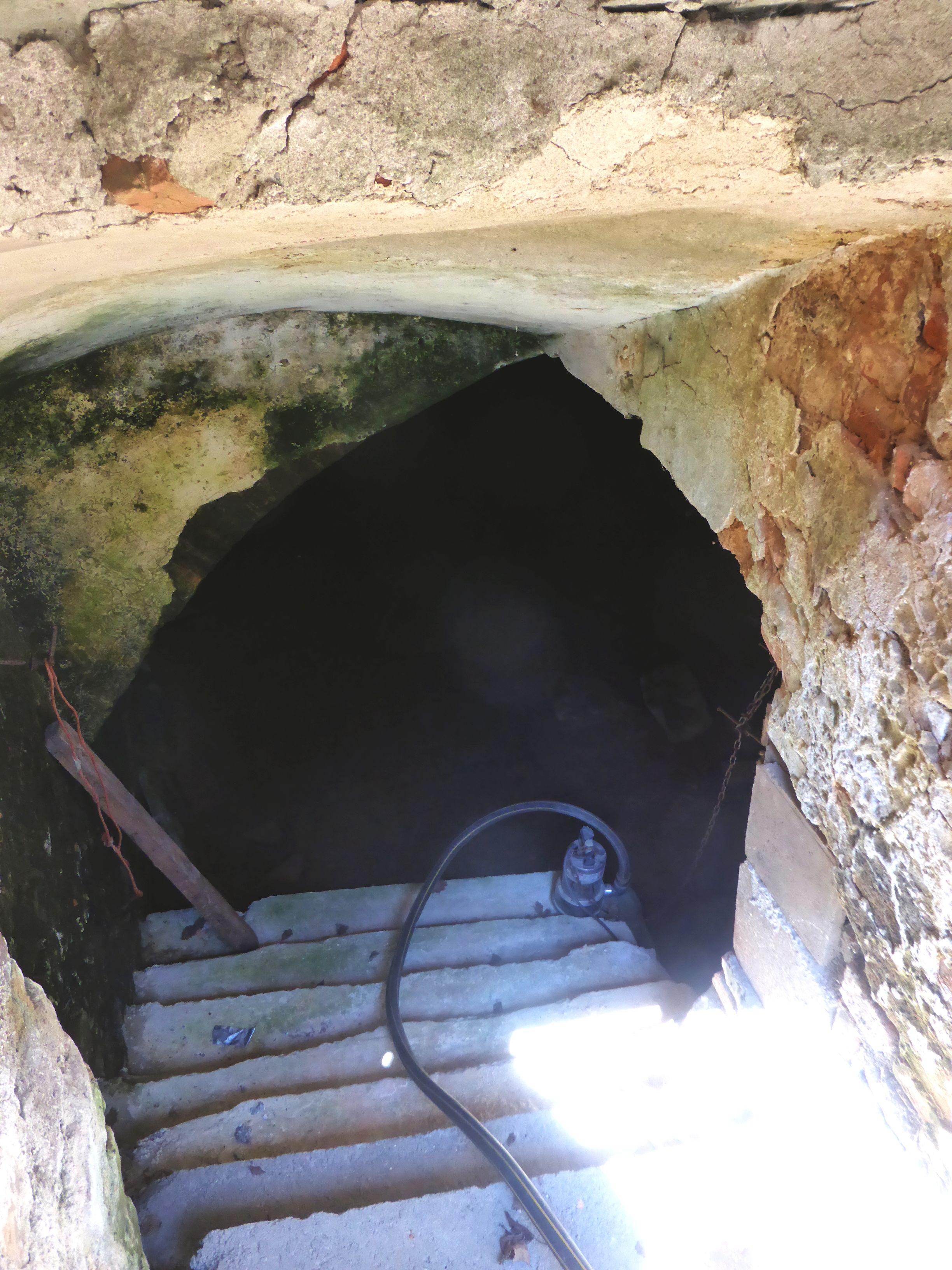 Schloss Penkhof (Rückseite)